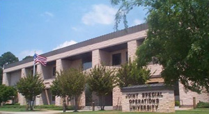 Joint Special Operations University